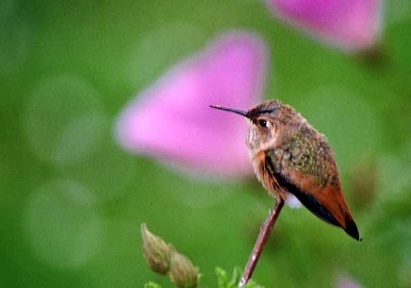 Allen's Hummingbird (Selasphorus sasin)